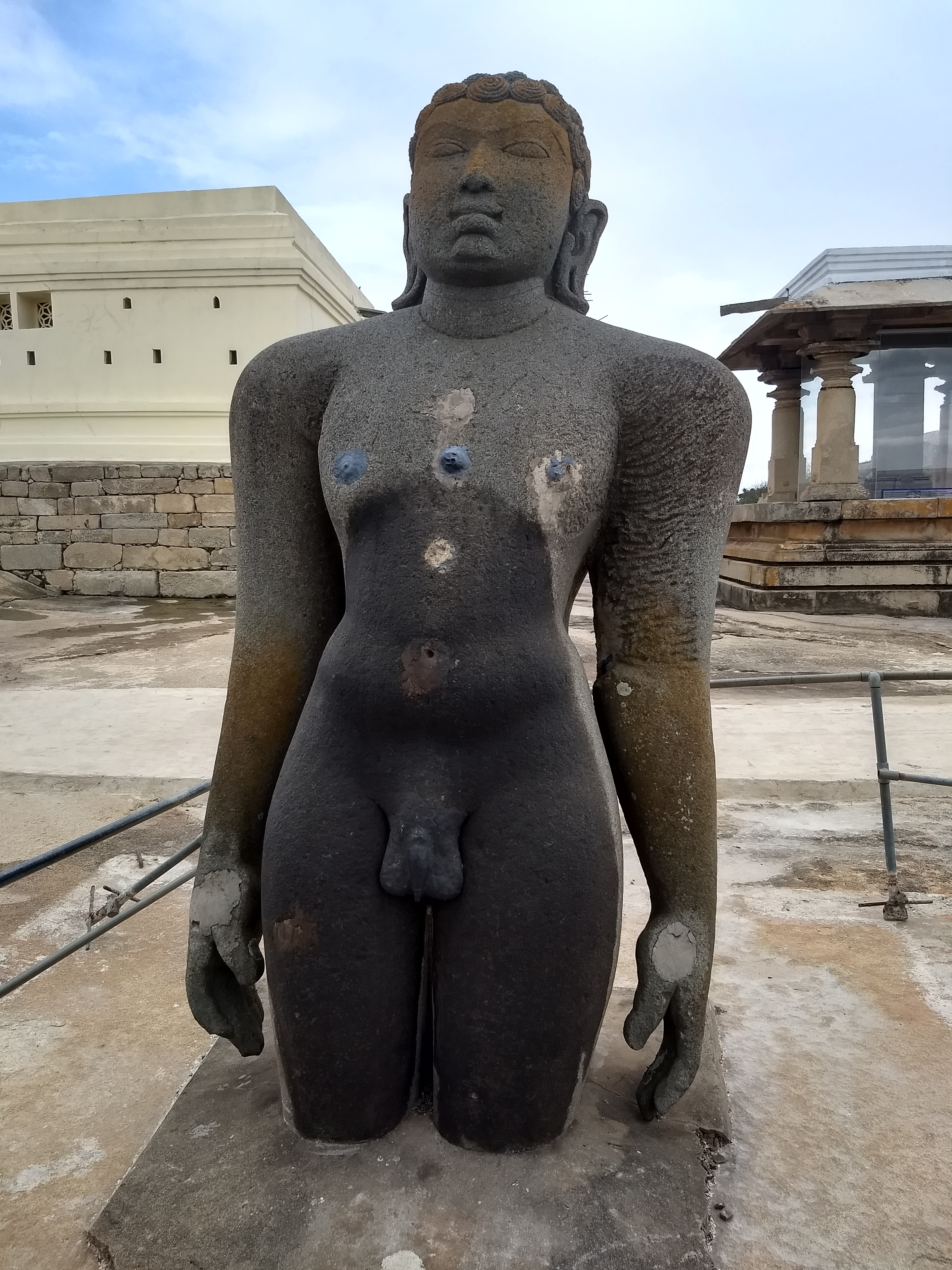 Bharata Chakravartin, Chandragiri